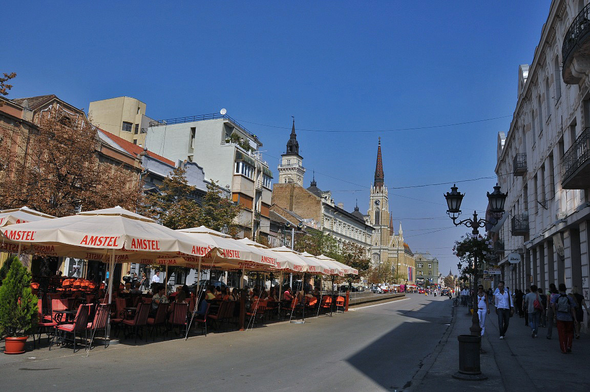 Novi Sad main street